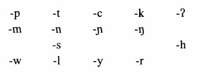 list of letters used in Jah Hut Language